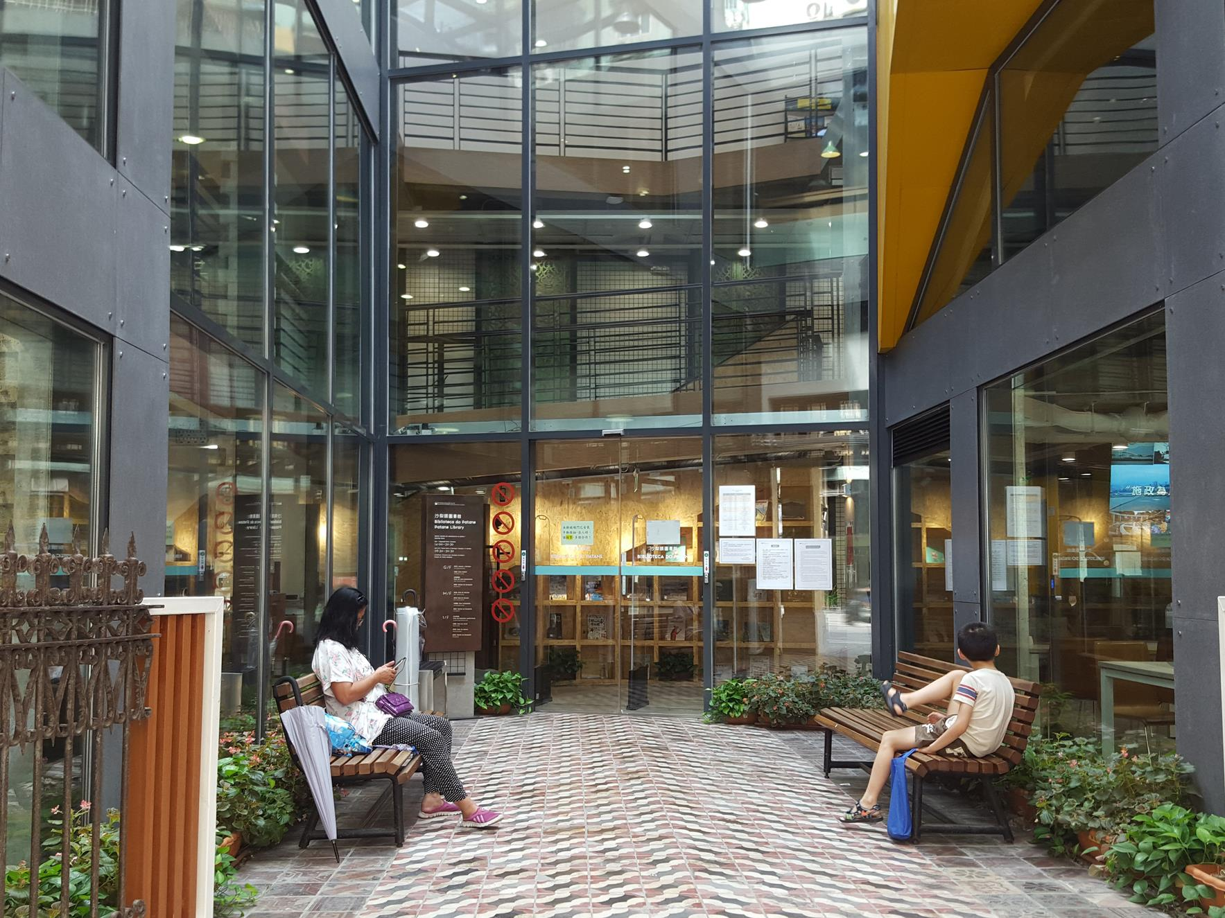 Patane Library